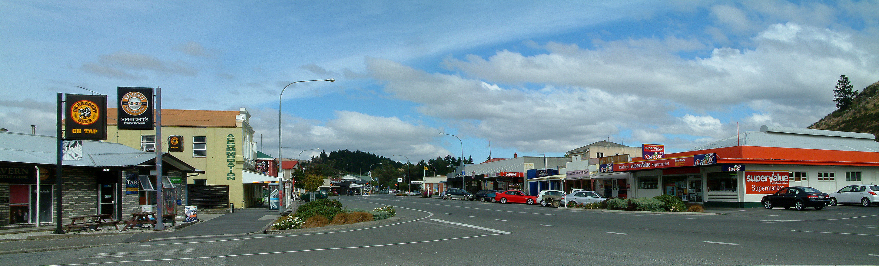 View of main street of Roxburgh in Otago, New Zealand. State Highway 8 between Alexandra and Dunedin.